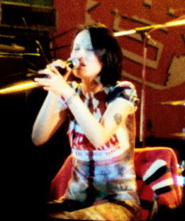 Taiwanese pop/rock singer Faith Yang（楊乃文） Bân-lâm-gú: Tâi-uân ê liû-hîng iô-kún-ga̍k kua-tshiú Iûnn Nái-bûn. 台灣的流行搖滾樂歌手楊乃文。